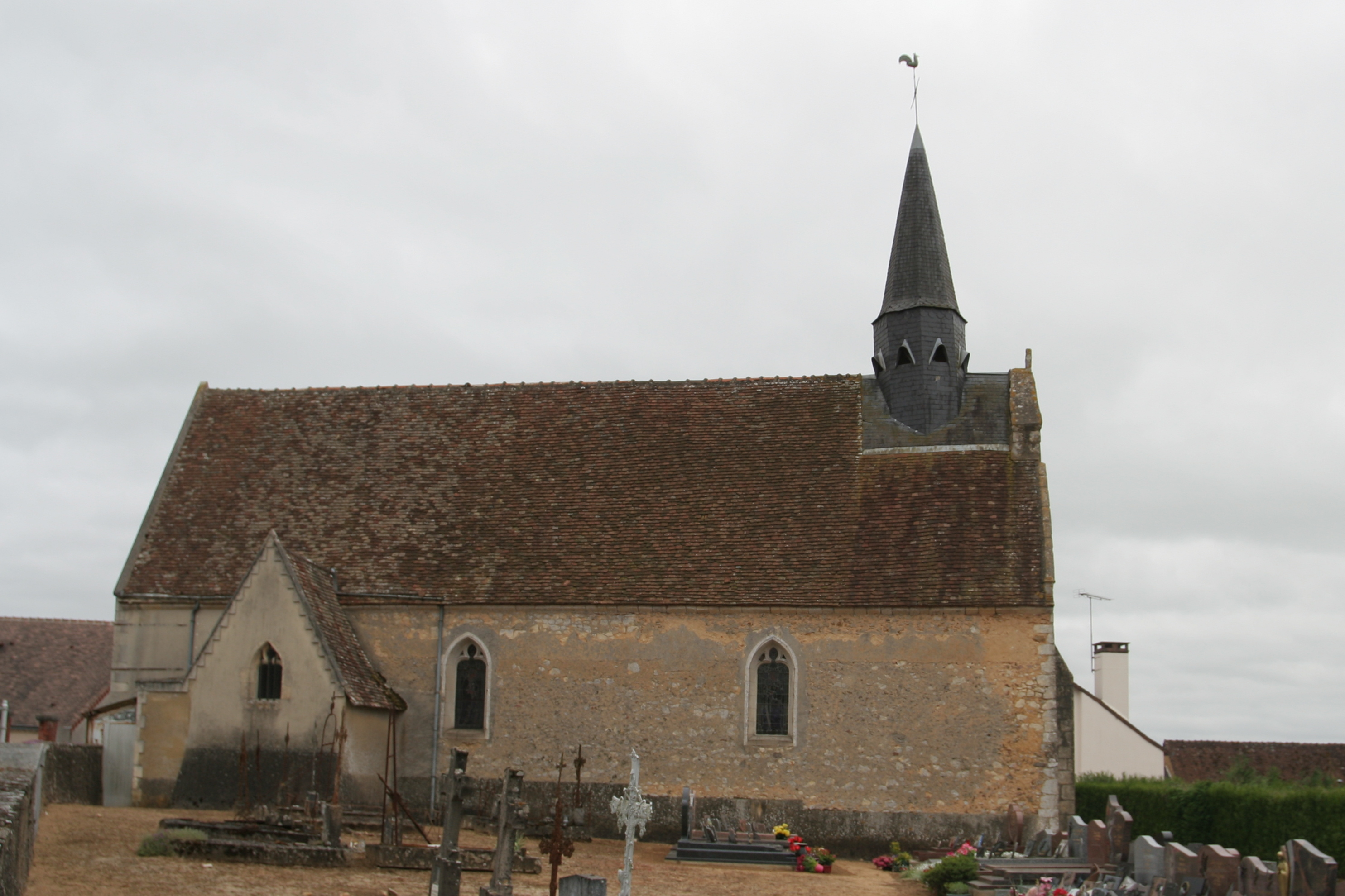 Church of Saint-Hilaire-le-Lierru.